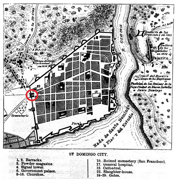 Map of Santo Domingo, Dominican Republic, with a red circle indicating where the Baluarte Del Conde is located.